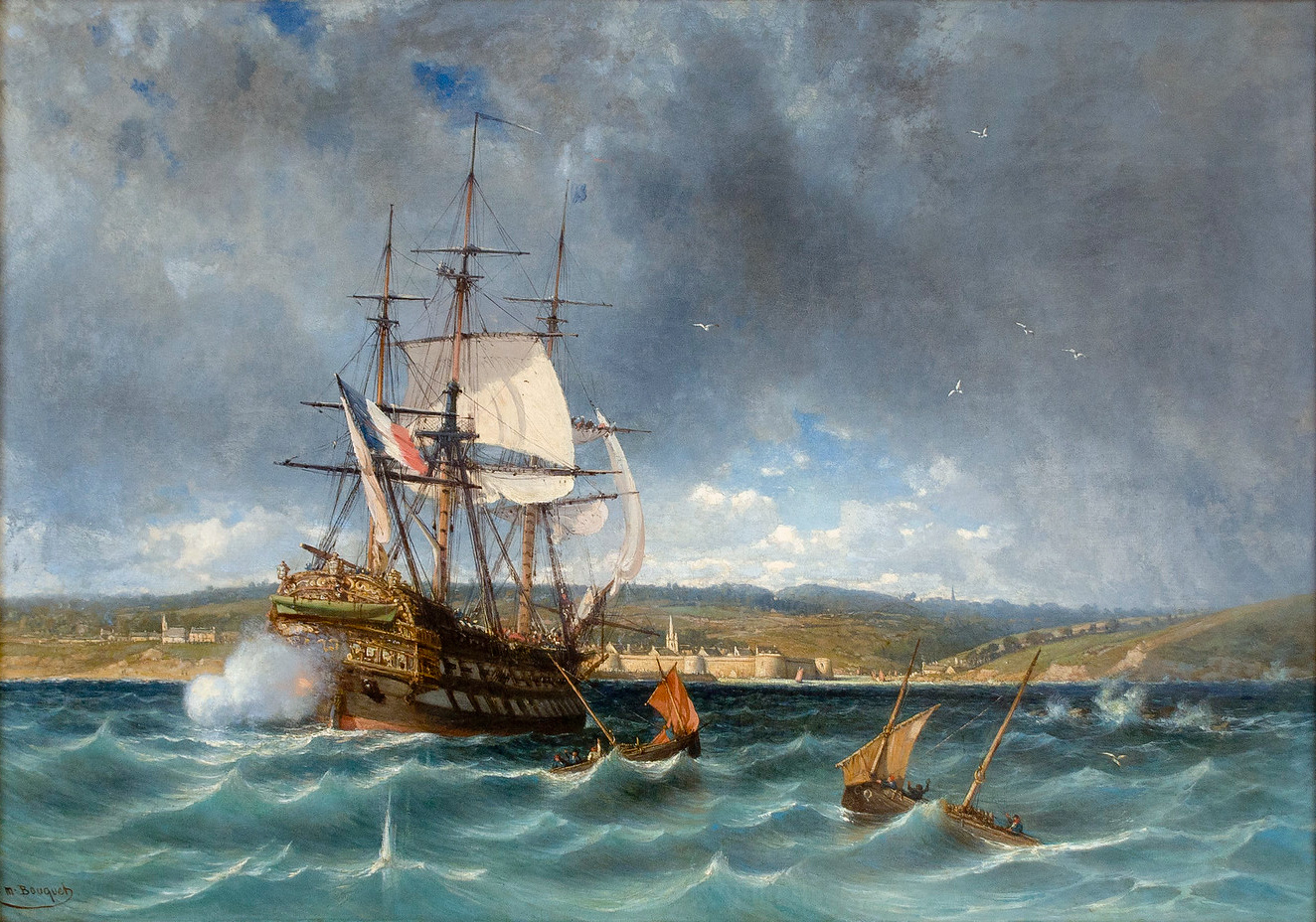 The Vétéran fleeing into the shallow waters of Concarneau - Oil on canvas, c. 1861